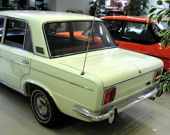 Fiat 125